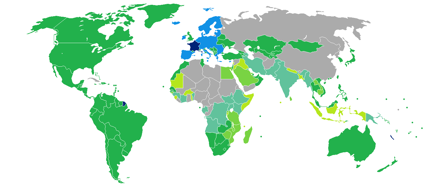 Visa requirements for French citizens France Freedom of movement Visa not required Visa on arrival eVisa Visa available both on arrival or online Visa required prior to arrival